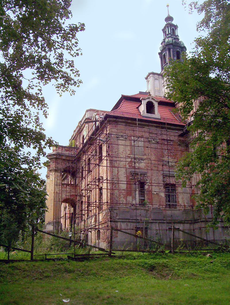 The palace in Chocianów (Poland) during renovation (2007)